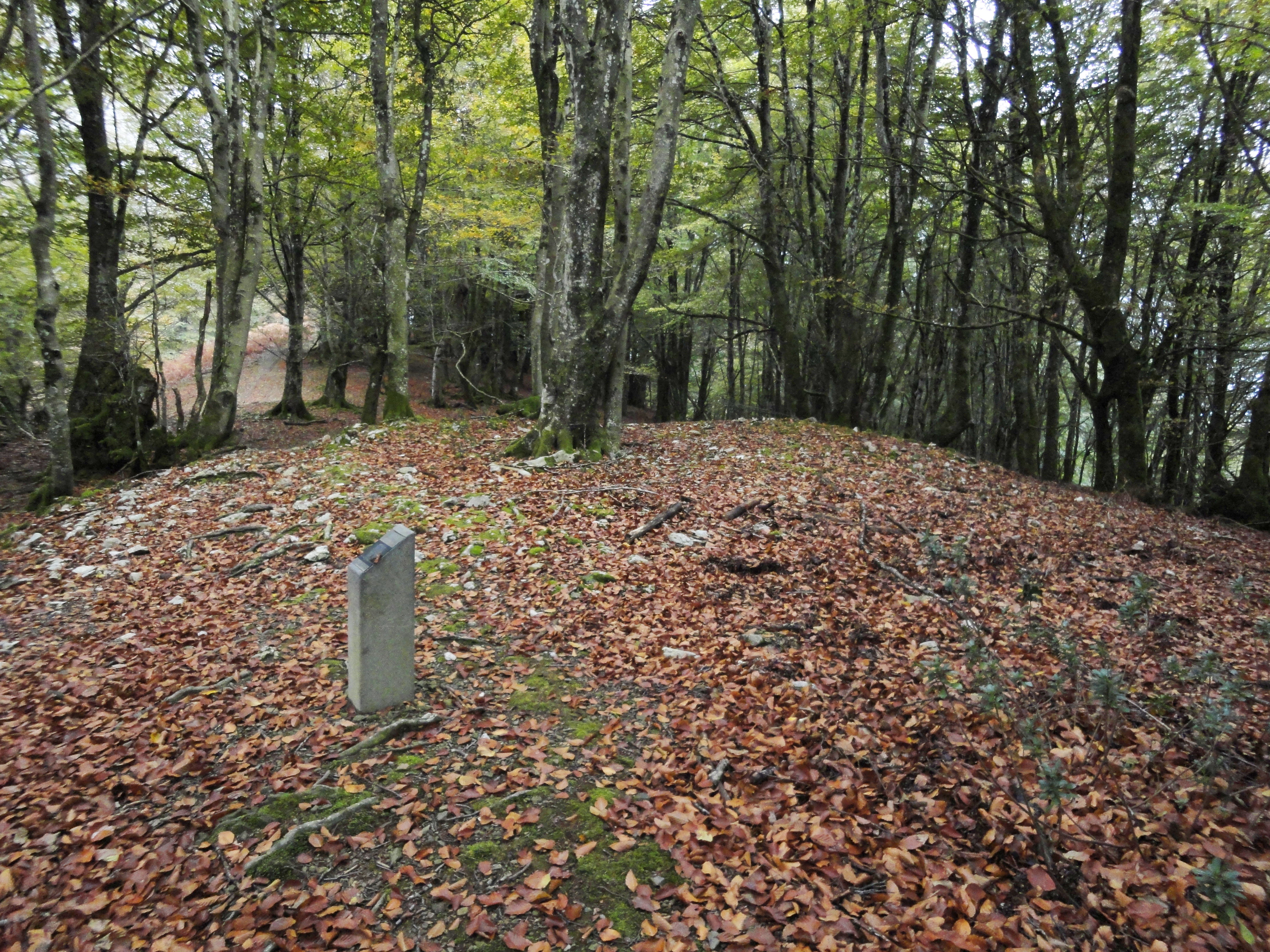 Pagoaundi tumulusEuskara: Pagoaundi tumulua